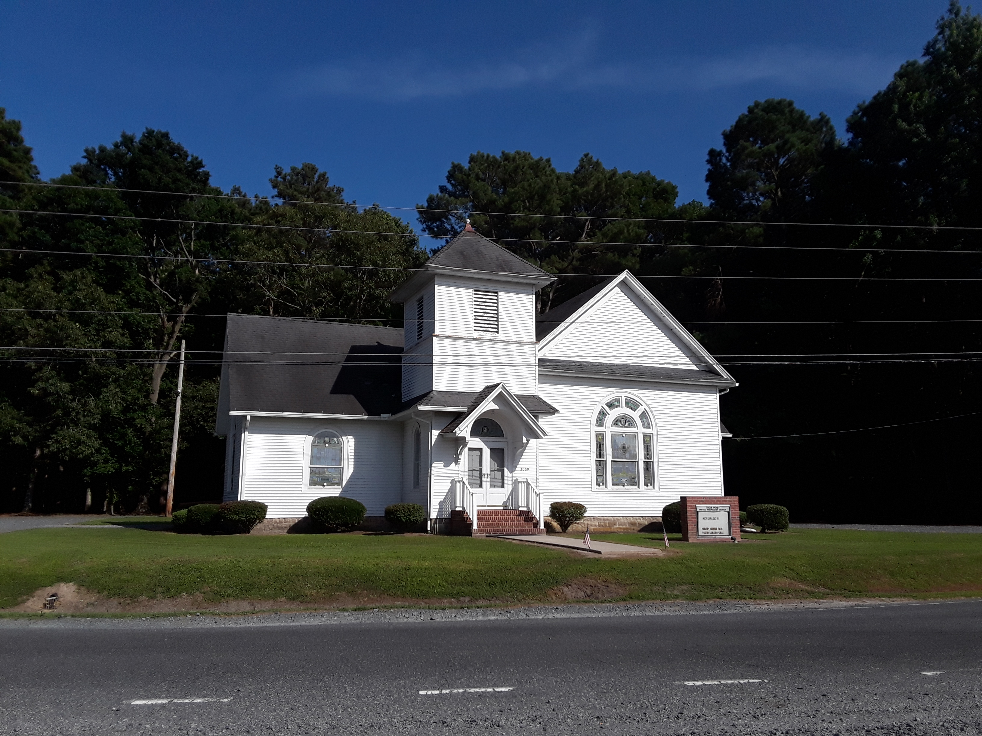 Taken on a visit to the Eastern Shore of Virginia, July 2018